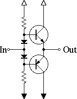 Analog single-ended push-pull amplifier schematic (Note: This is outline of principle, don't realize as is)